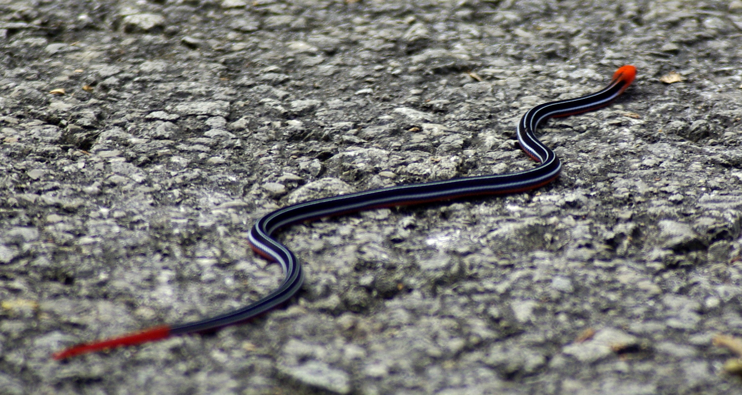 Blue Malayan coral snake found in Sarawak, Malaysia, ~20 km from Kuching.